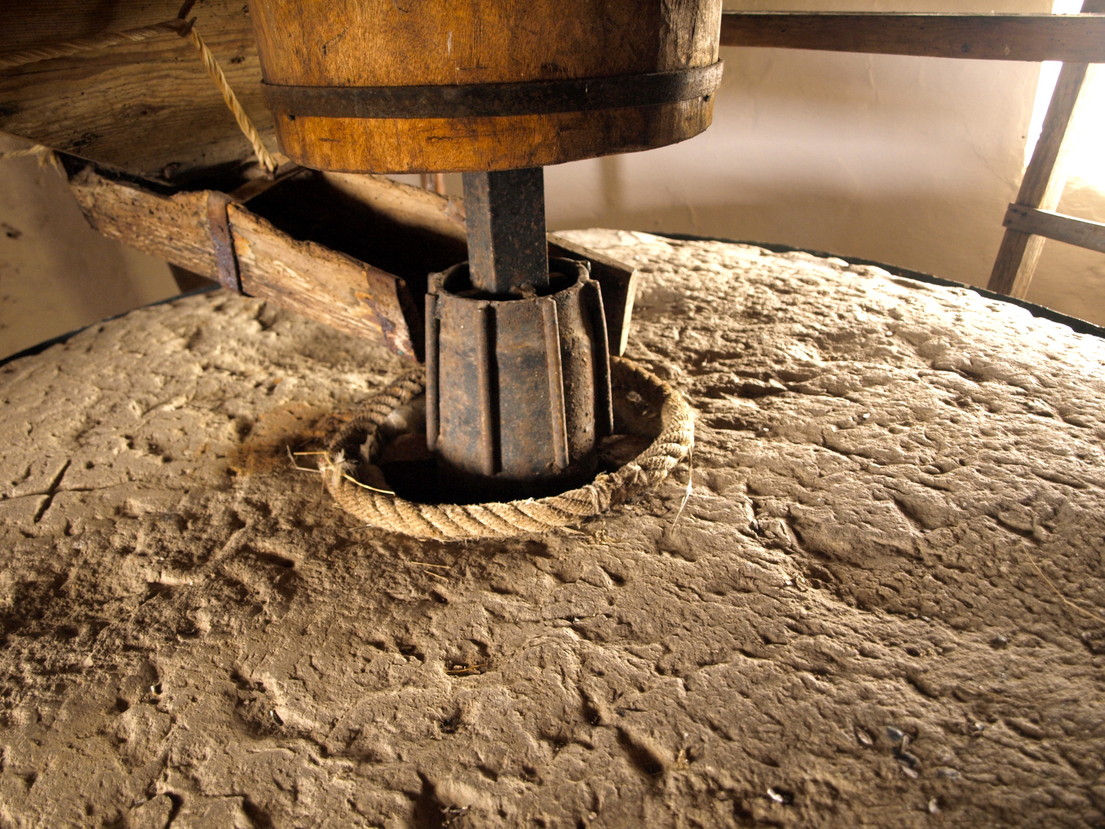 Molí vell de la Mola, milling stone